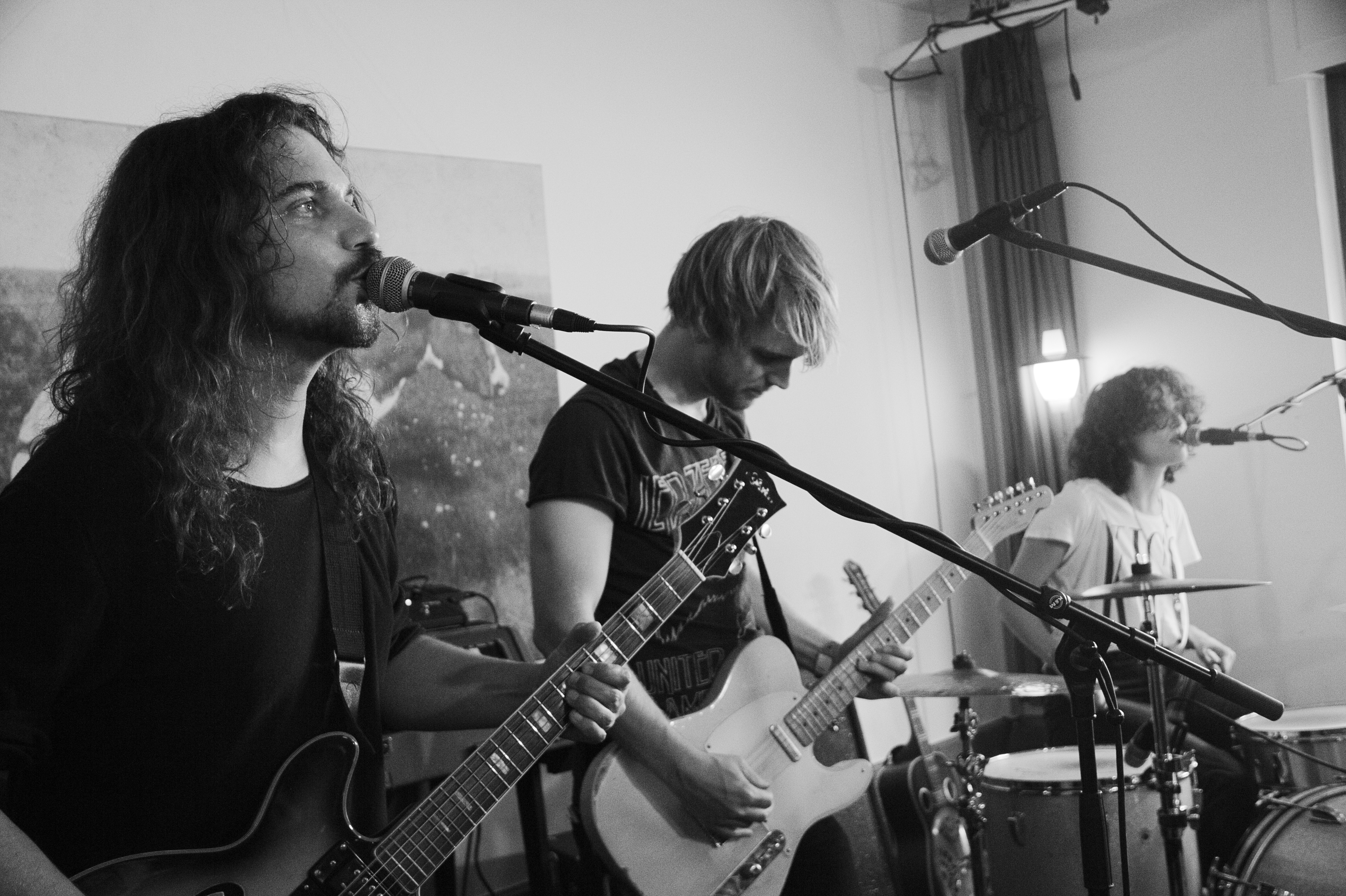 Me & Marie at Haldern Pop Festival 16